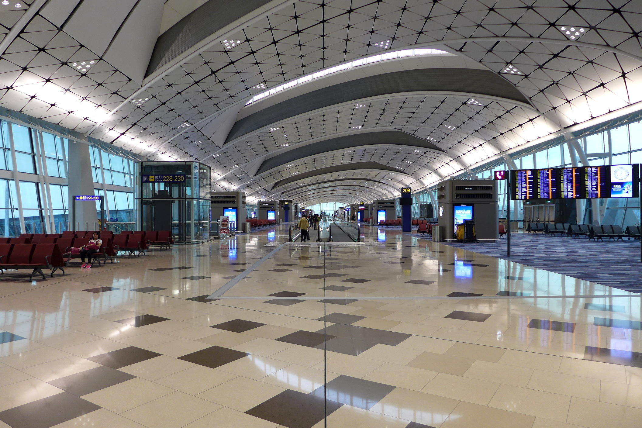 Hong Kong International Airport Midfield Concourse